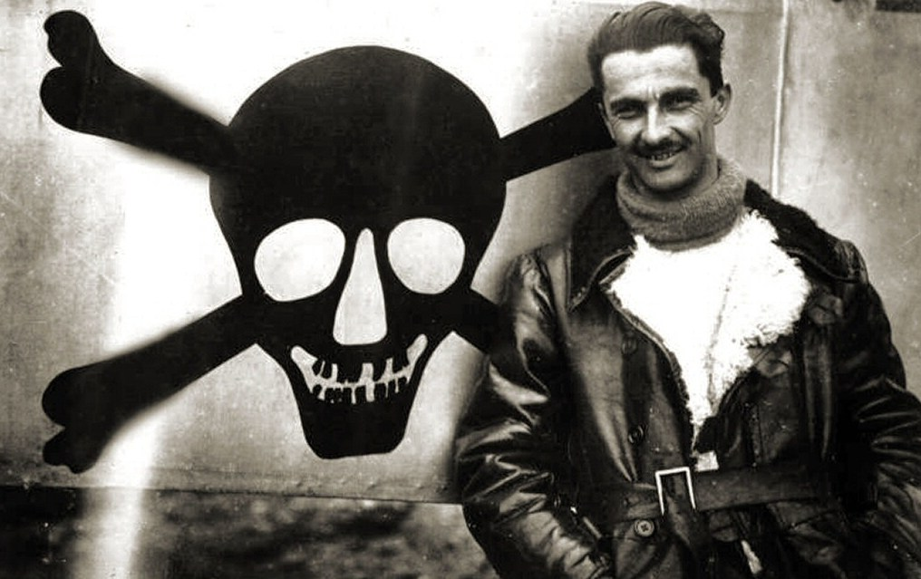 Fulco Ruffo's personal insignia. His planes had a black skull with crossed bones painted on the fuselage. This is the first version, painted on his Nieuport Ni.17